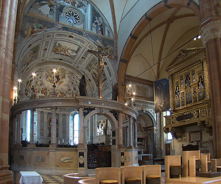 Verona Cathedral, Veneto, Italy. Main chapel.